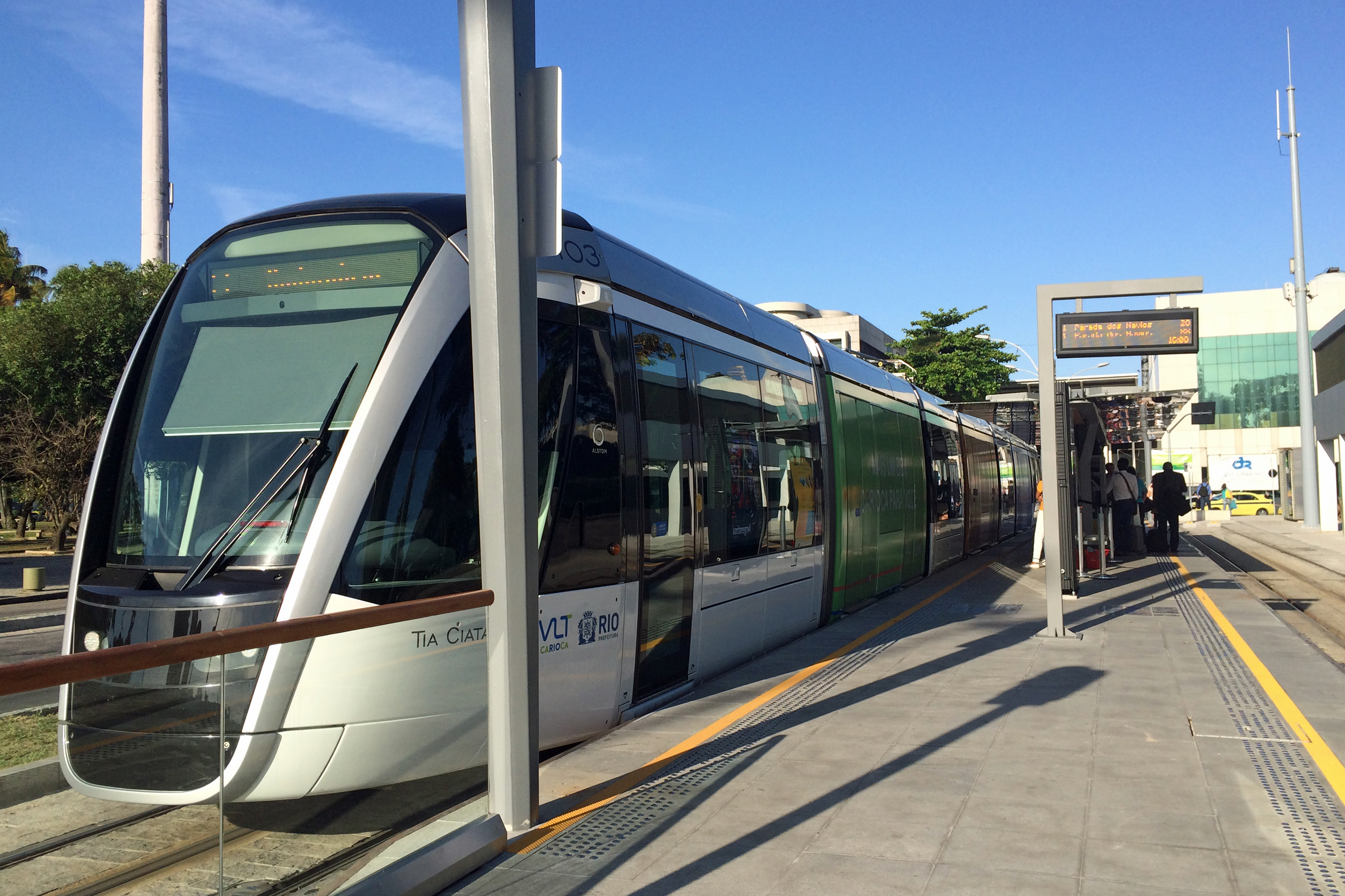 VLT Carioca, Rio de Janeiro. Tram at Santos Dumont Airport station.